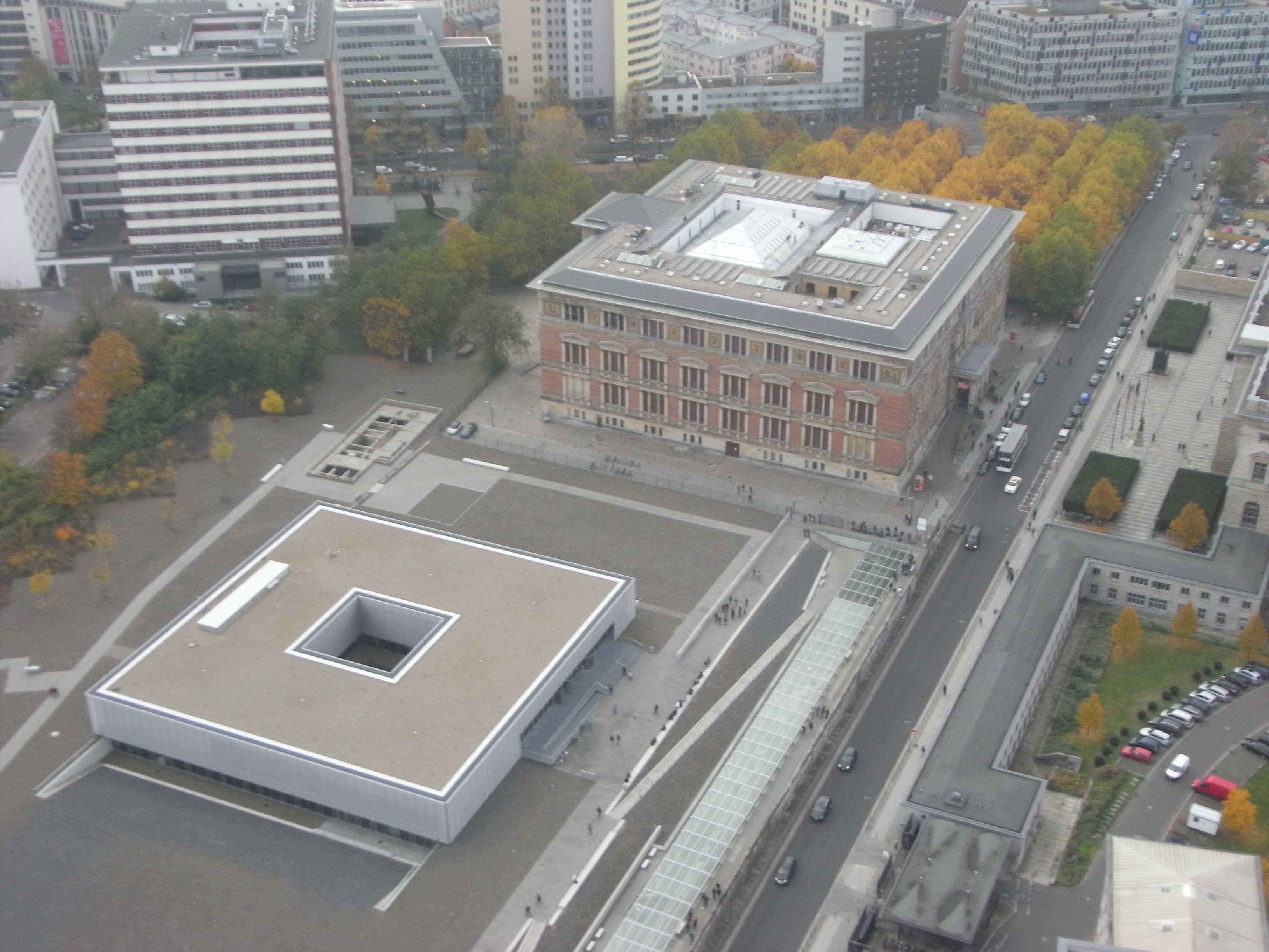 Aerial view of Exhibition "Topographie des Terrors" and Exhibition Hall "Martin Gropius-Bau" in Berlin